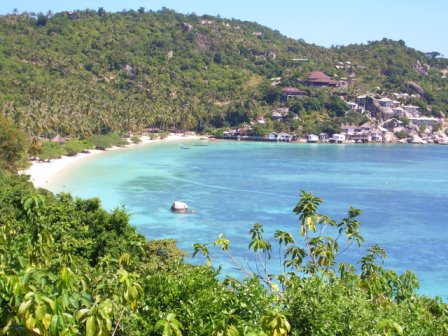 I took this picture when I was vacationing on Koh Tao.